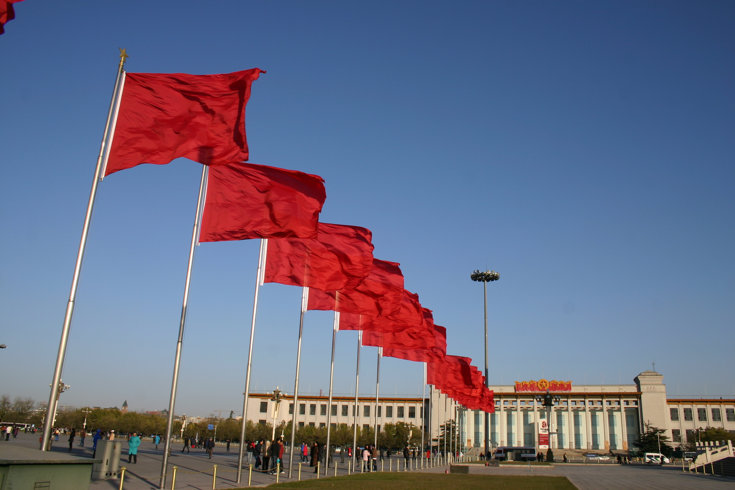 National Museum of China